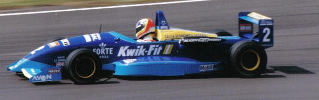 Hélio Castro Neves driving for Paul Stewart Racing at Silverstone during the 1995 British Formula Three Championship season.